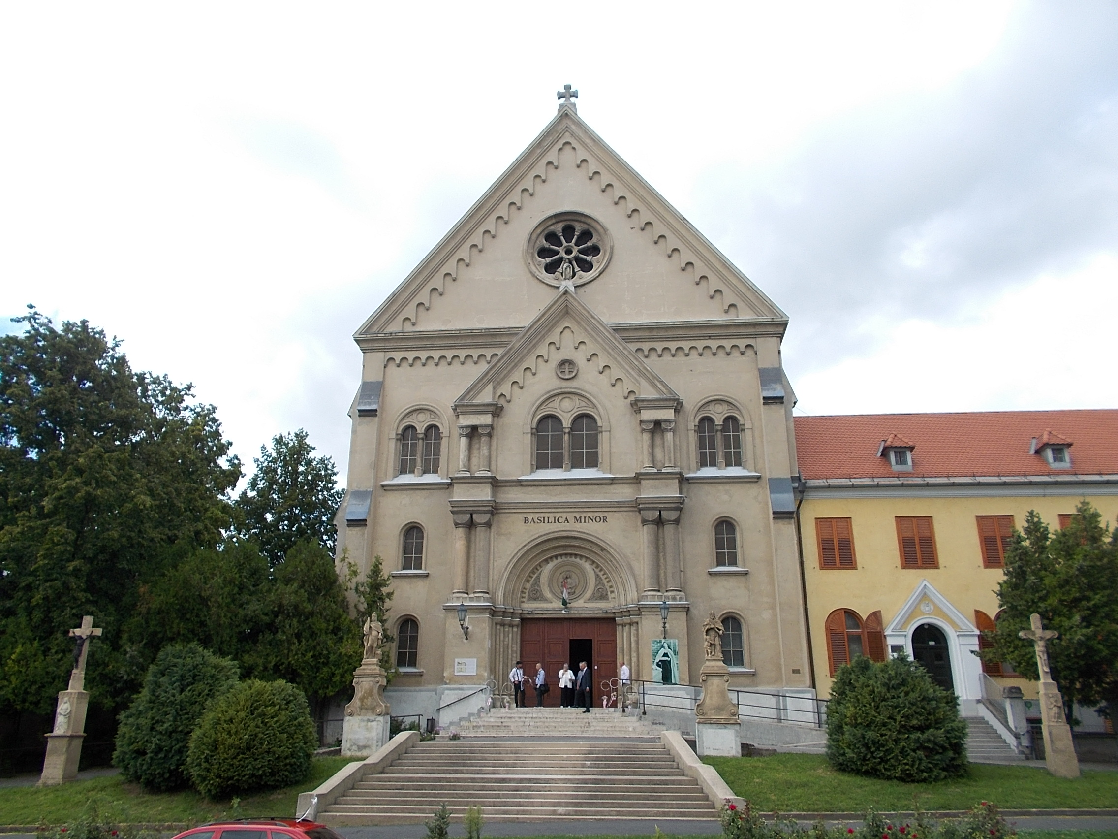 Carmelita Basilica. Basilica Minor. - Tapolcai út, Keszthely, Zala County, Hungary.